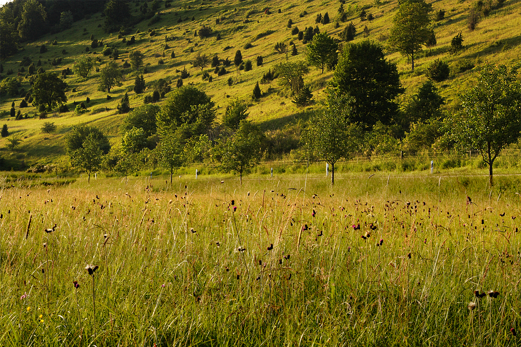 Calcareous grassland at river Große Lauter. The slope, a typical juniper heath of the Swabian Alb, is moderately kept by grazing sheep, yet always subject to ecological succession.